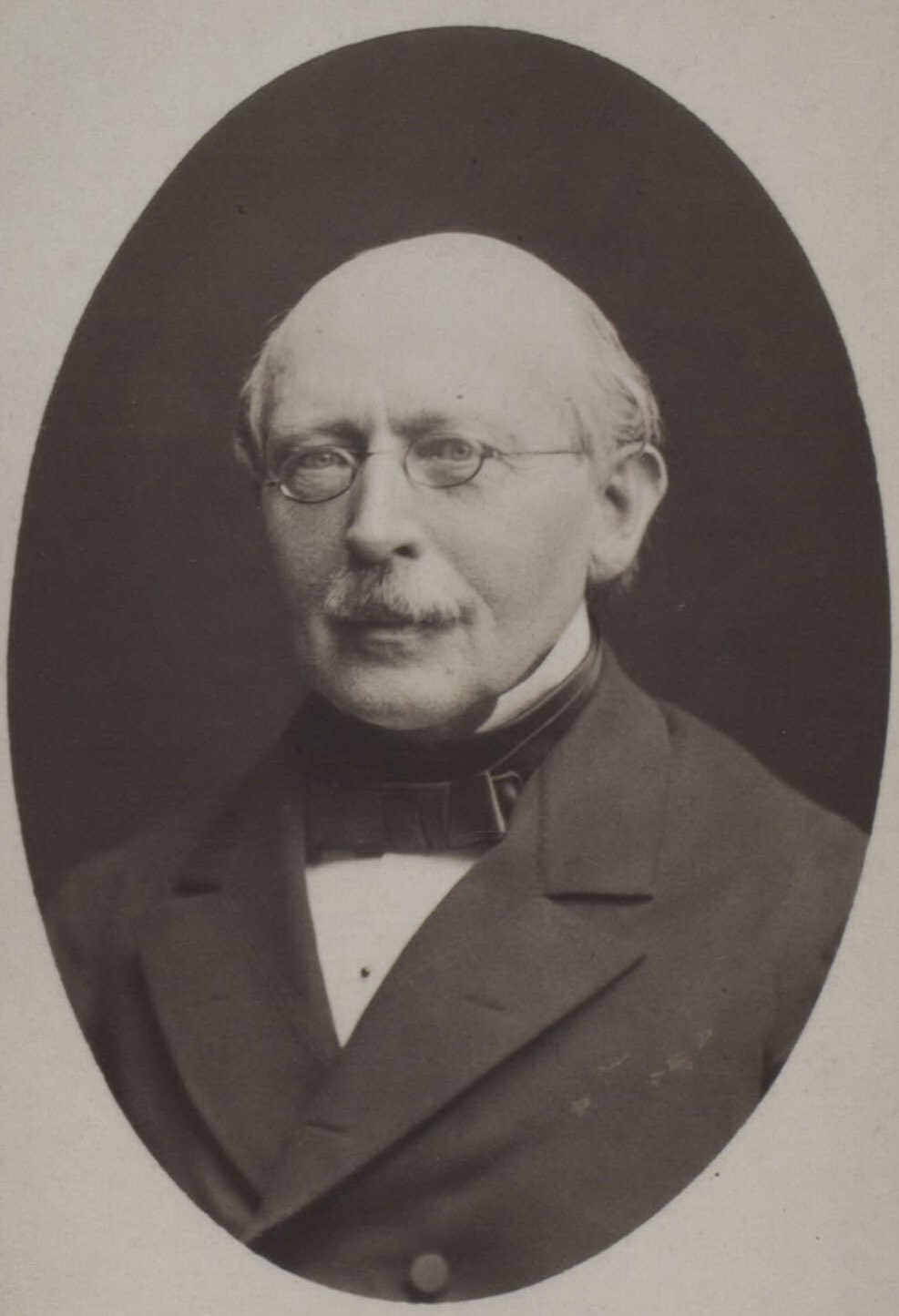 Carl Christopher Georg Andræ (1812-1893), Prime Minister of Denmark, mathematician, and military officer